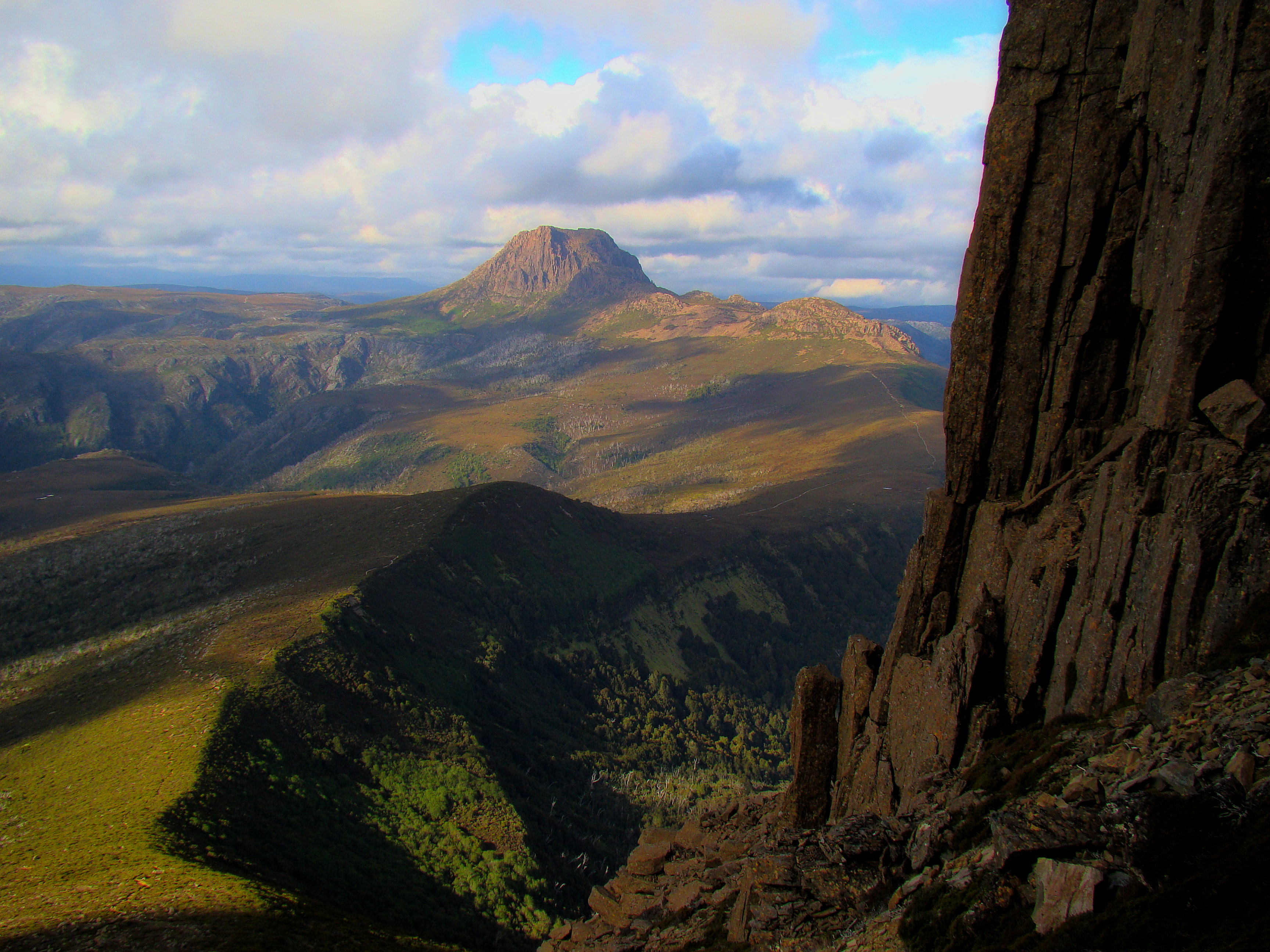 Cradle Mountain seem from Barn Bluff, more or less from the south. The smaller peak closer to the camera is called Benson Peak.